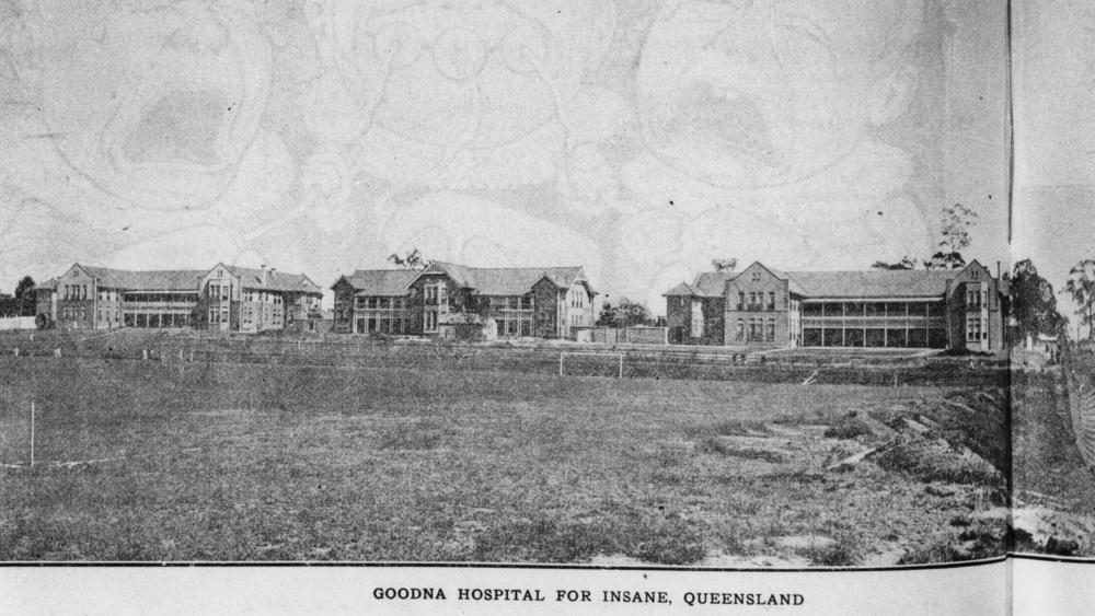 Goodna Hospital for the Insane, Queensland, 1919 Hospital for the Insane was establishment at Goodna in 1865 on an isolated site between Brisbane and Ipswich. The facility is now known as Wolston Park Hospital, and originally known as Woogaroo Asylum. The original terrain was heavily wooded but then cleared as shown in this photograph, ca. 1919.